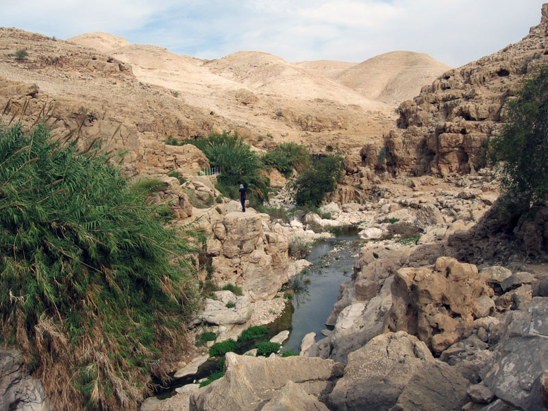 Ein-Kelt, an oasis near Jericho, Palestine